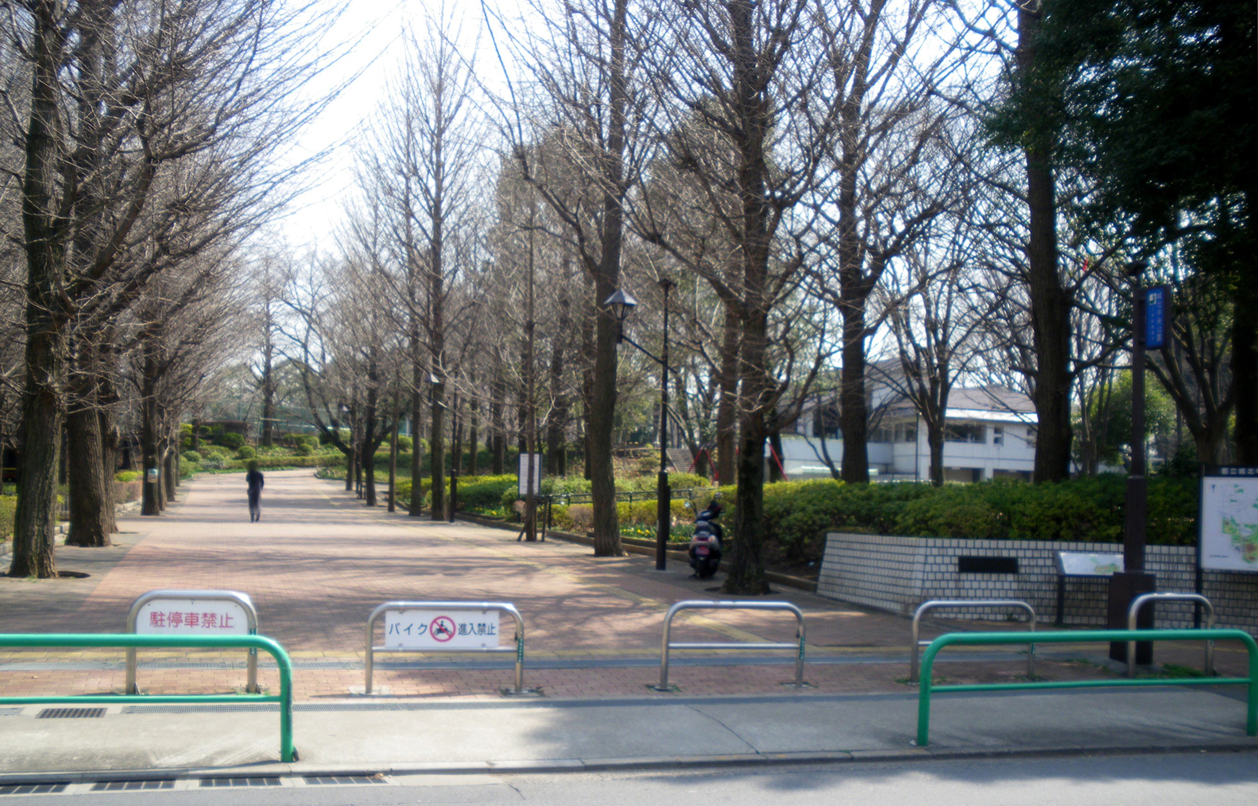 Jōhoku Chūō Park.